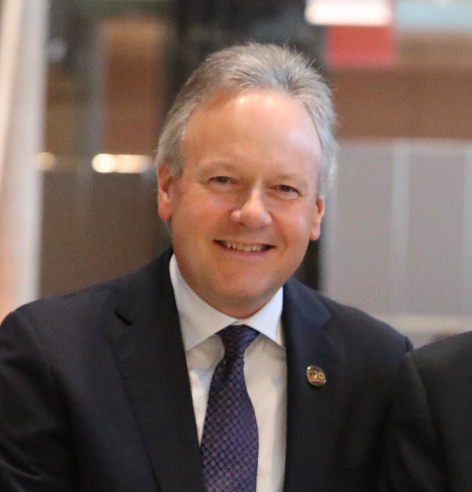 Stephen Poloz, Governor of the Bank of Canada, and Jerome Powell, Chairman of the Federal Reserve - Day 2 of the 3rd Meeting of Finance Ministers and Central Bank Governors.